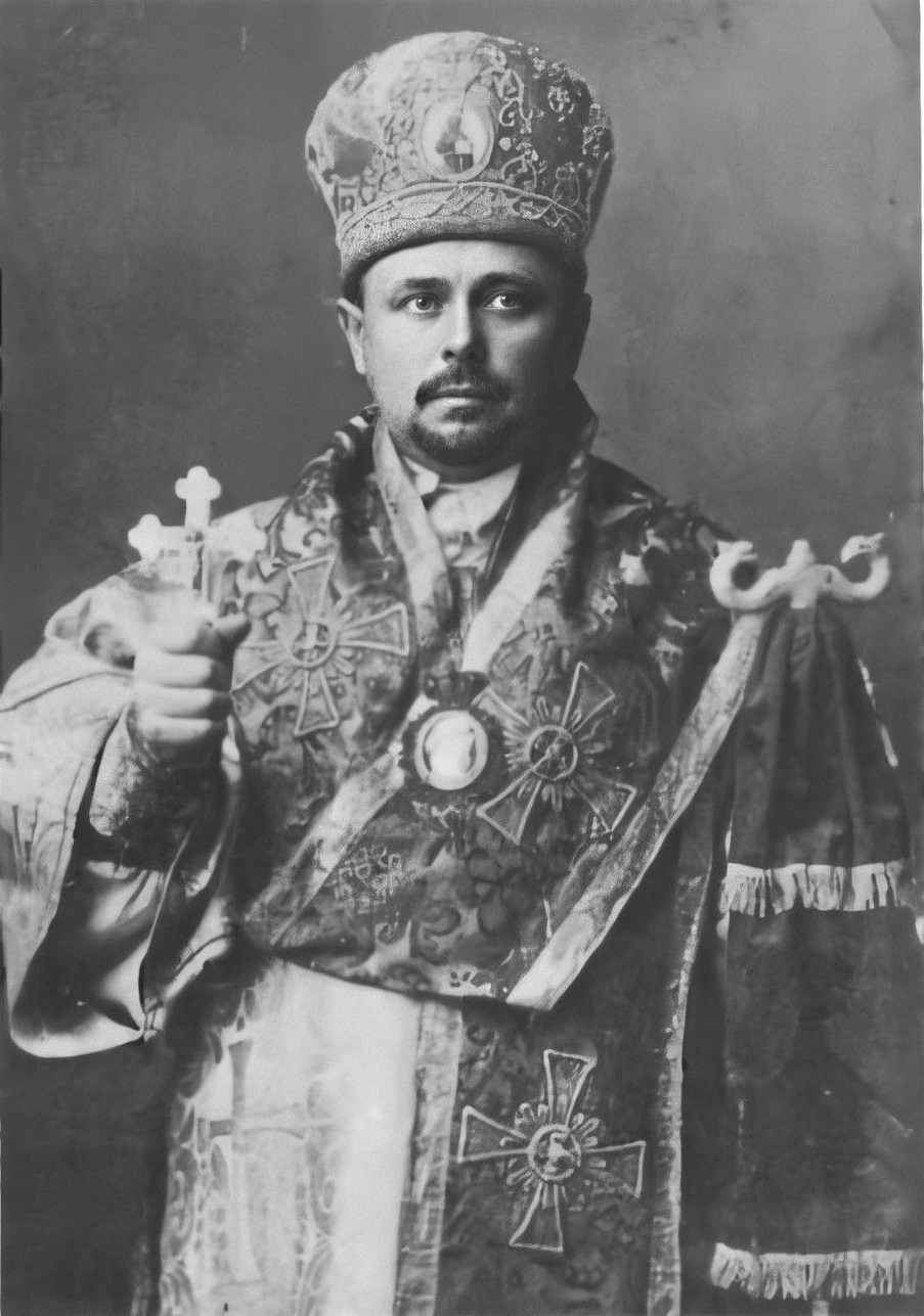 ZHevchenko-UAPC